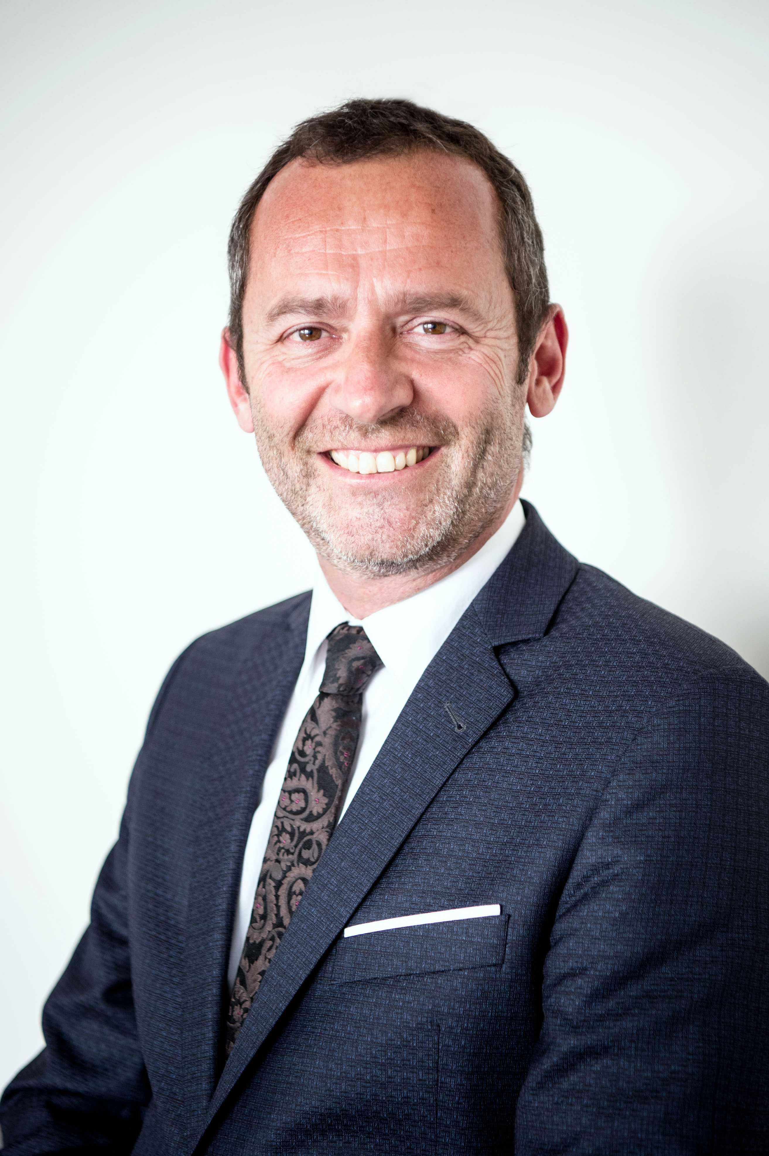 Eric Falt, Director and Representative, UNESCO New Delhi Office